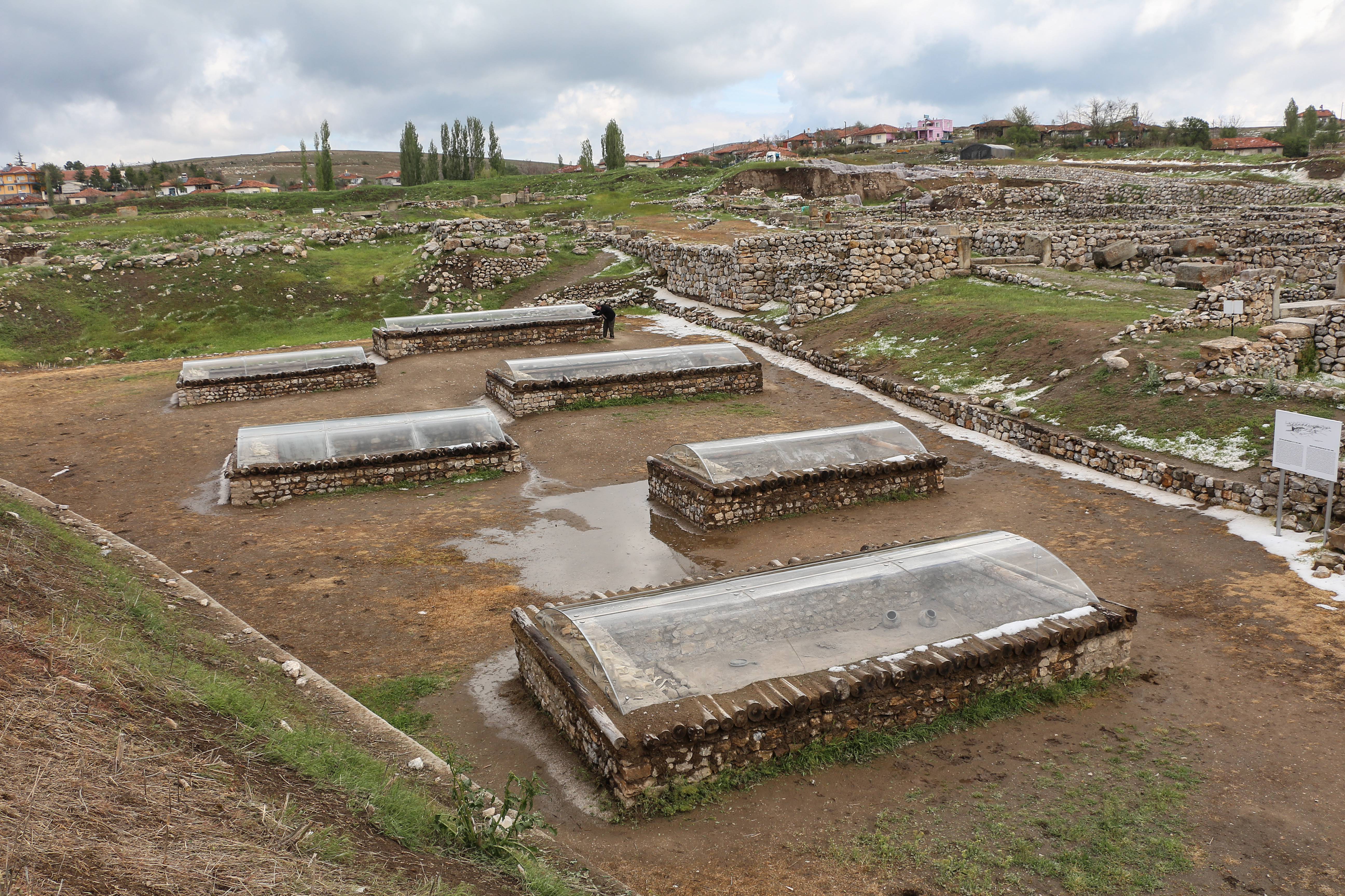 Royal tombs, Alaca Höyük, Turkey